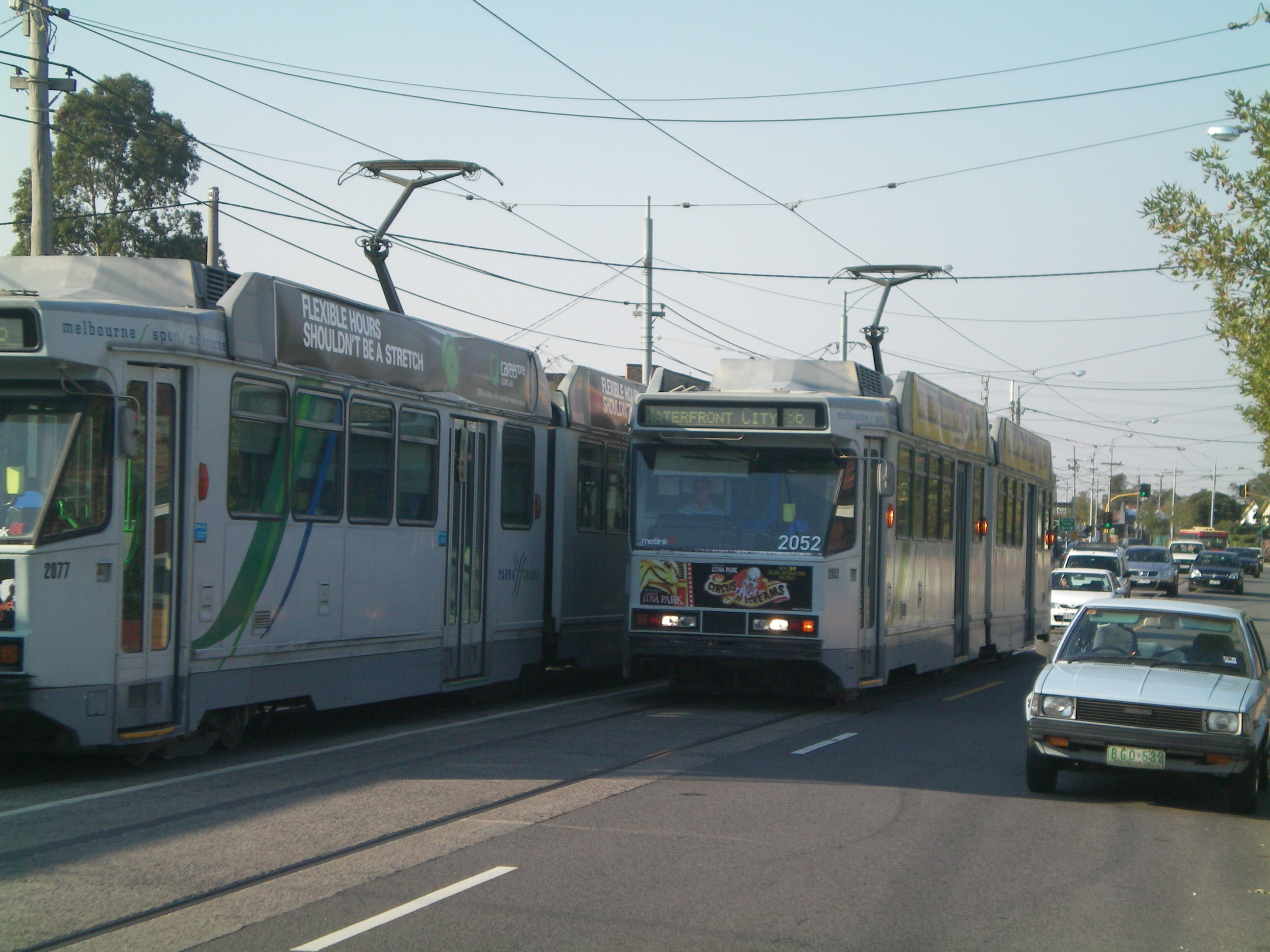 The route 86 tram travelling south (approaching the camera) from RMIT University's Bundoora campus to the Melbourne CBD. Site pictured is in Preston; passing another route 86 tram.